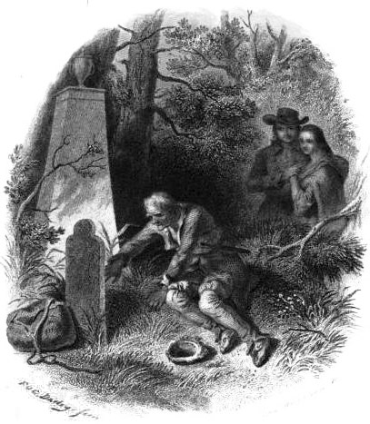 Illustration for the James Feminore Cooper novel The Pioneers, art by Felix Octavius Carr Darley. Published 1861, W. A. Townsend and Company in New York.